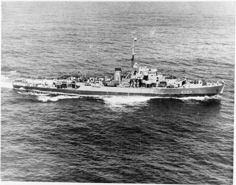 HMS DOMINICA, Colony class frigate, photographed underway at sea from a aircraft based at the Royal Navy Air Station, HMS OSPREY.